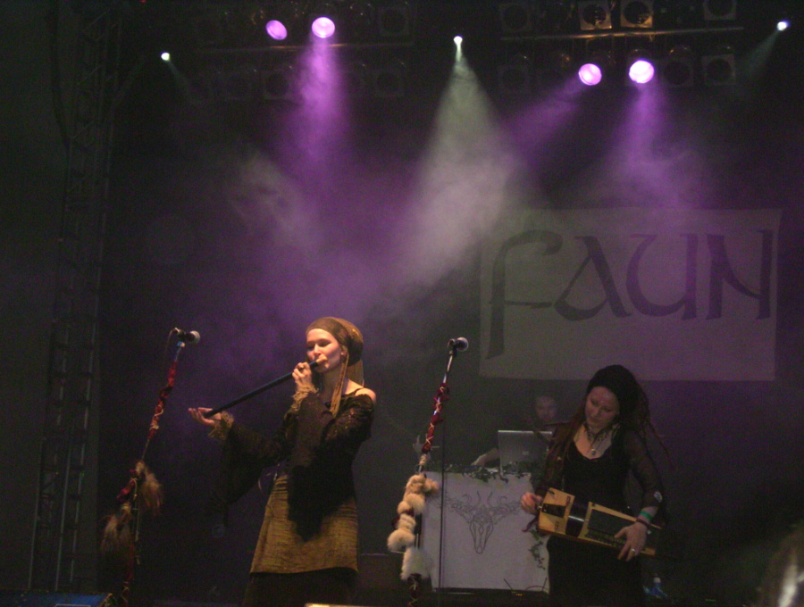 Faun live at the 13th WGT, 2004, Leipzig moved from DE to Commons photographed by myself